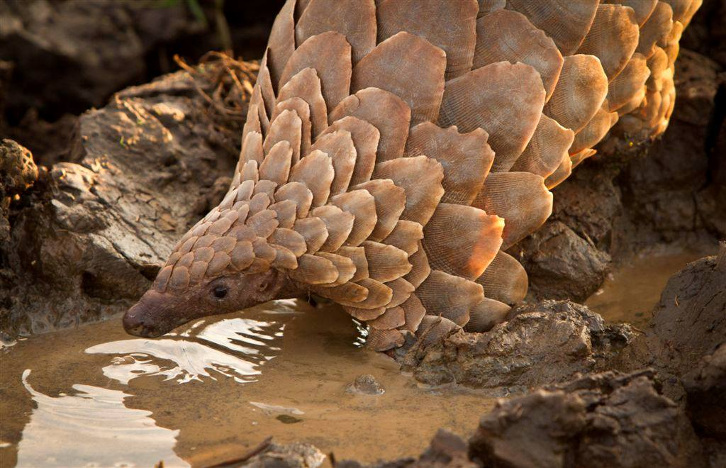 Photo credit to Tikki Hywood Trust The United States is co-sponsoring four separate proposals to increase CITES protections for pangolins from Appendix II to Appendix I